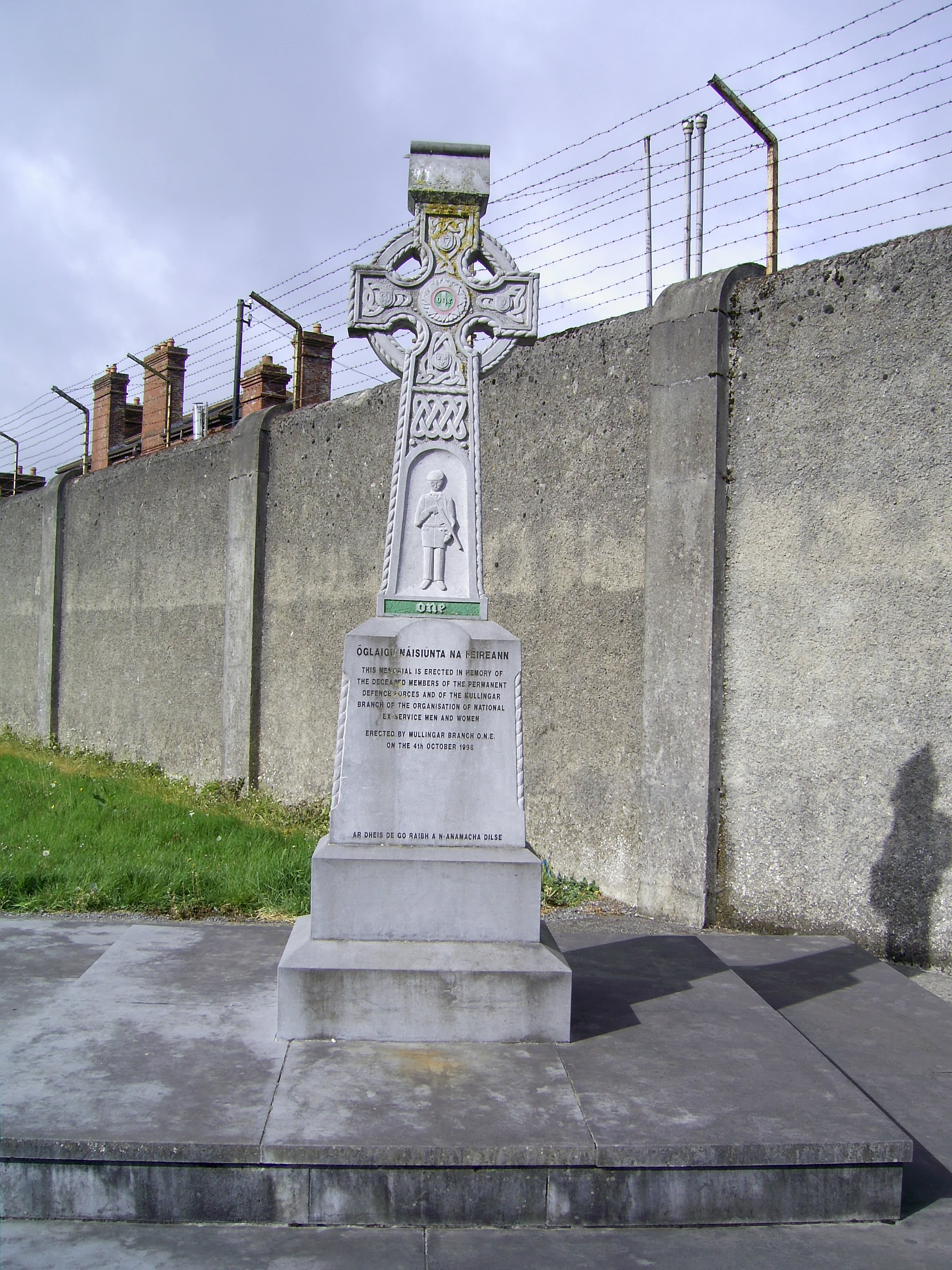 Celtic Cross, Columb Barracks Mullingar, Fourth Field Artillery Regiment.